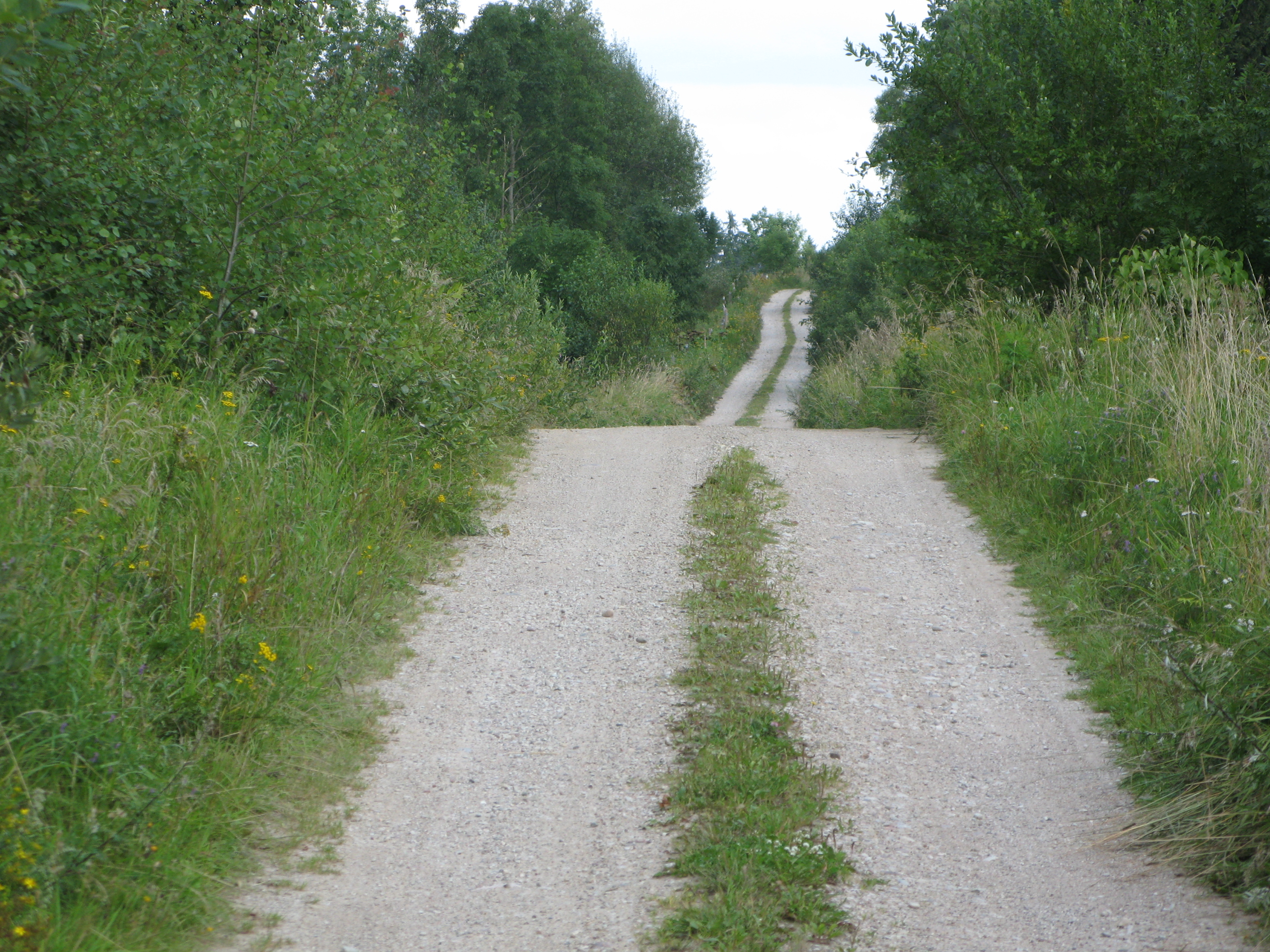 road in Golubie, a destructed by the Red Army village in Poland.